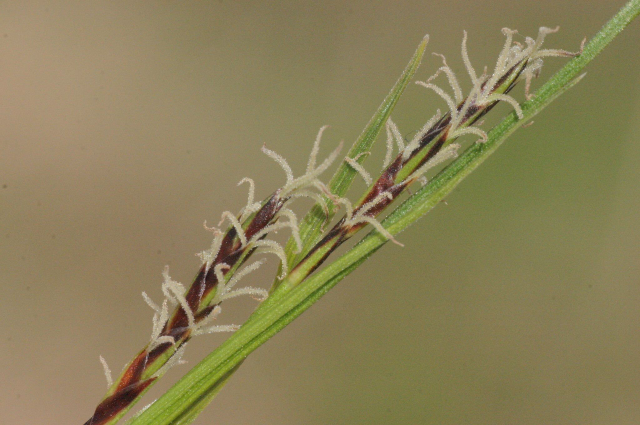 Carex sempervirens